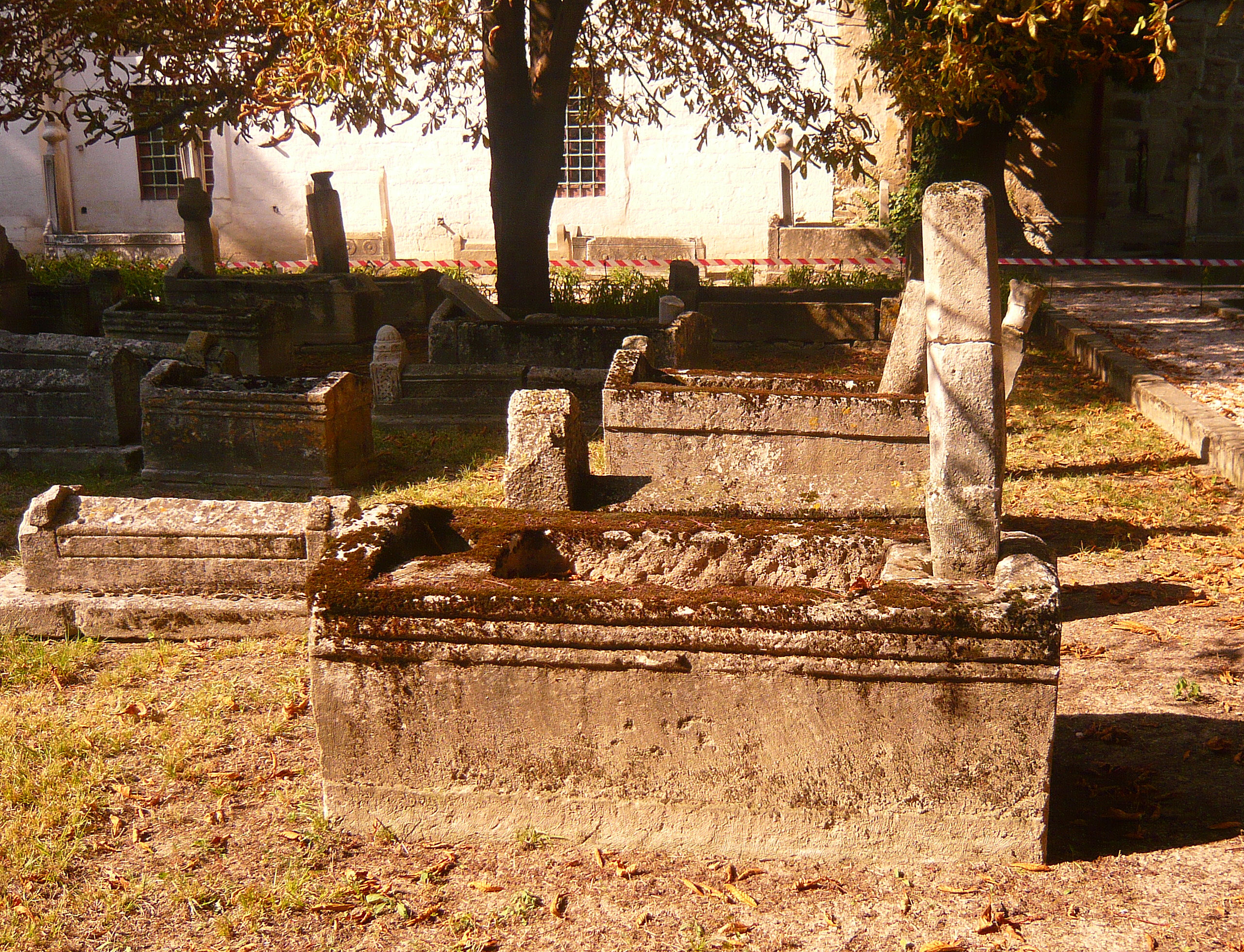 Khans cemetery in Bakhchisaray Palace